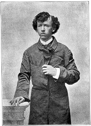 Tom Bailey at 18